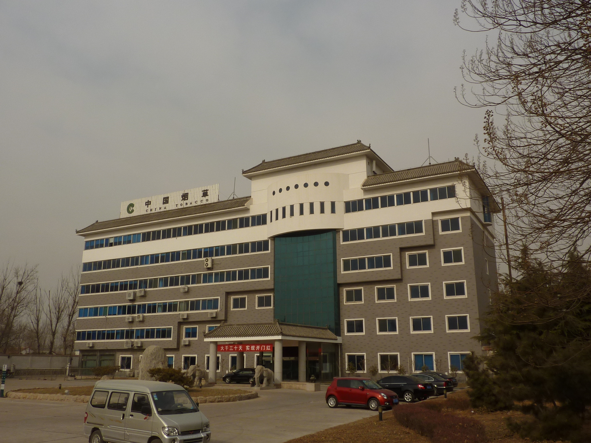 Office of China Tobacco in Qufu. Located in in Jingxuan East Rd, some 2-3 km east of Qufu's Walled City (and just a bloc or two east of the Pest Control offices)